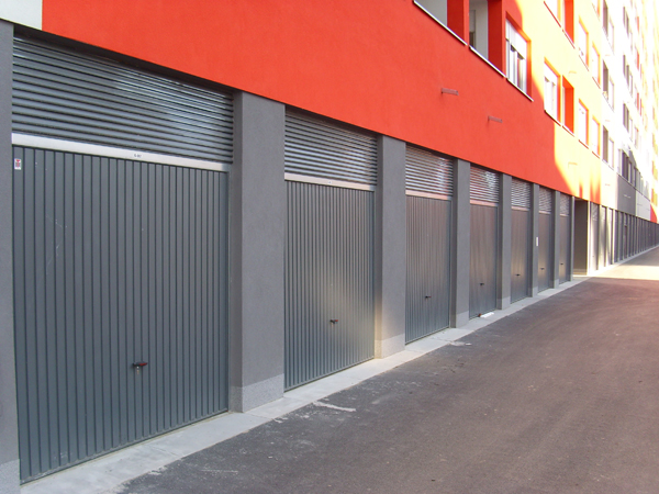 Garage doors on city block Lanište